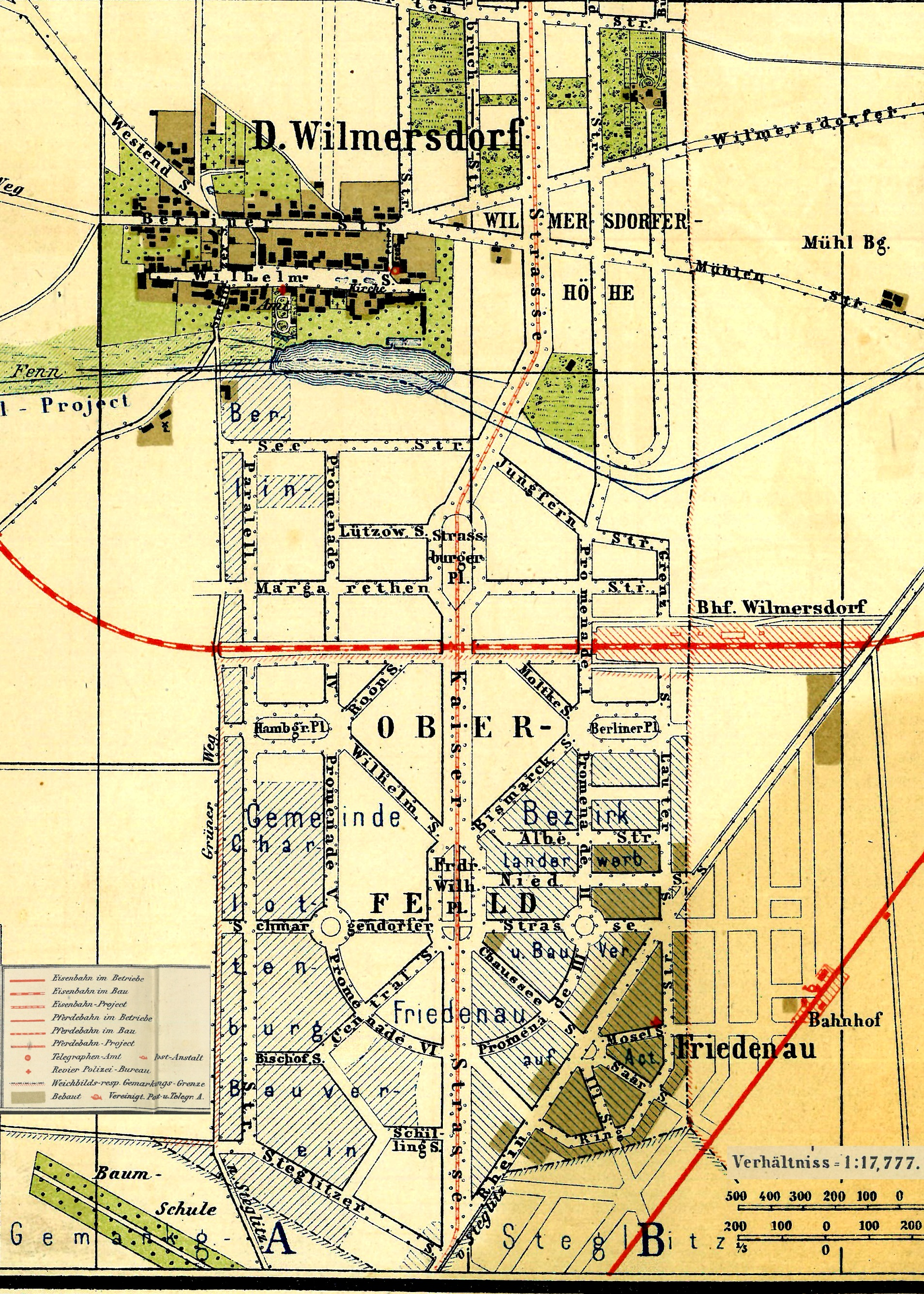 The old village "Deutsch-Wilmersdorf" (German Wilmersdorf) and the planning of developers for the new living quarter Friedenau in Berlin, as seen in 1877. Note: the yellow coloring in the lower right corner is in the paper of the original map.